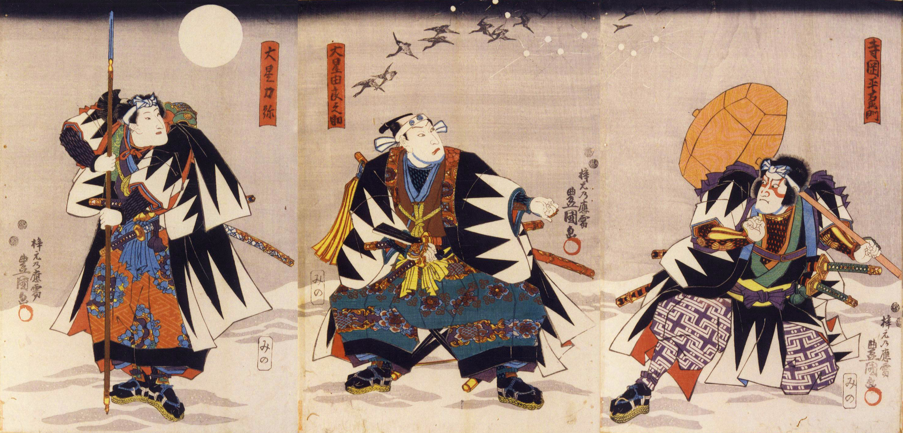 Kanadehon Chūshingura, by Toyokuni Utagawa III (the March 1849 production at Edo Nakamura-za)